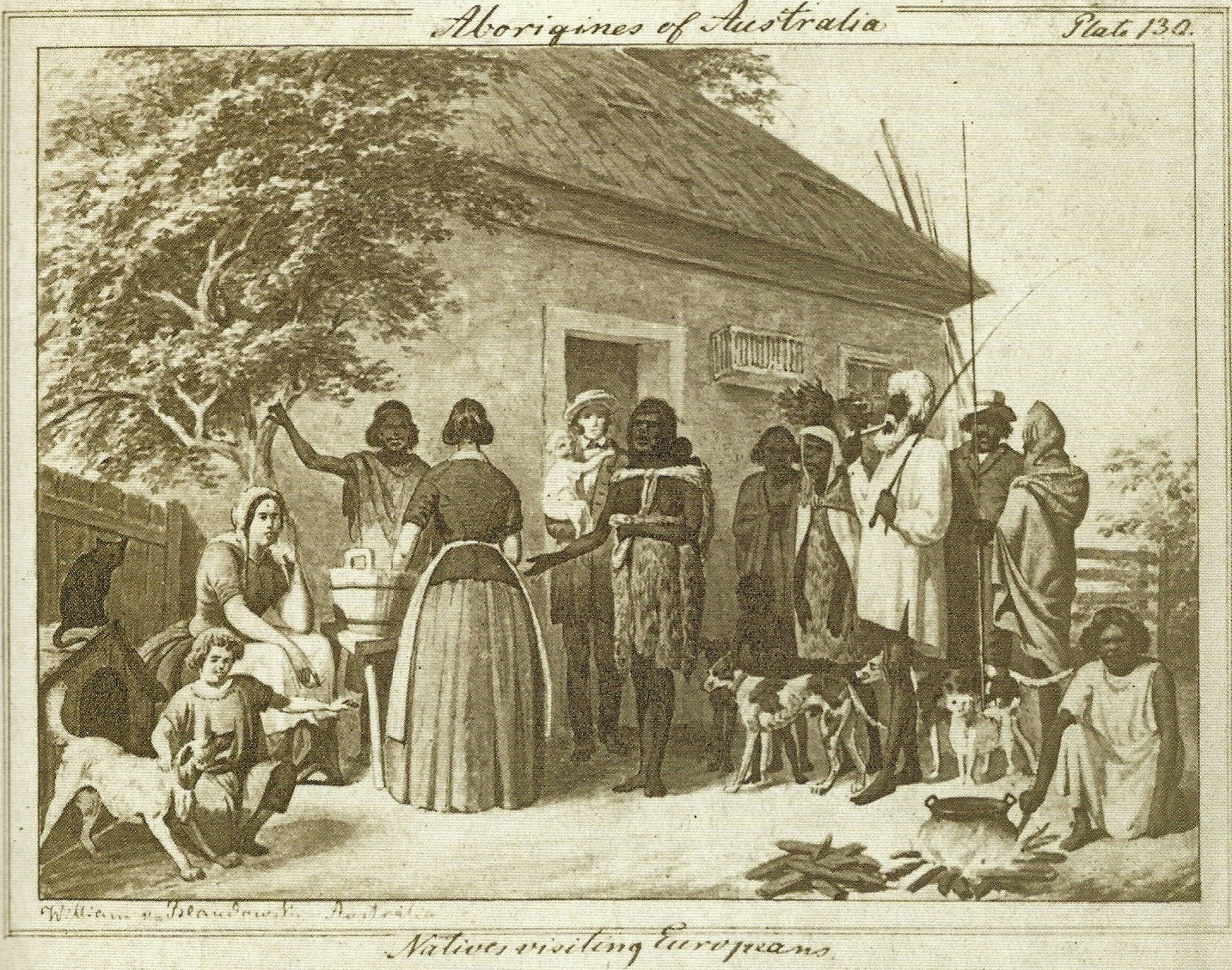 Aborigines visit the colonists, help them cook, wash and carry wood and water in exchange for the paltry amount of one pound of flour daily. Drawing by William Blandowski